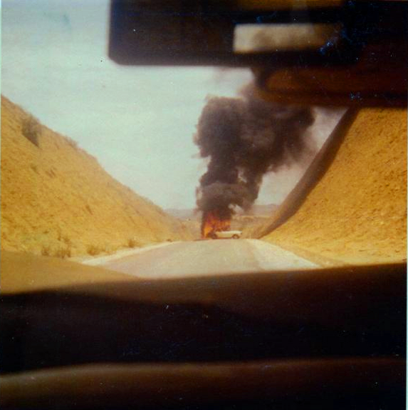 A staff car of the People's Armed Forces of Liberation of Angola (FAPLA) burns after being hit by UNITA or South African machine gun fire outside Novo Redondo (modern Sumbe), Angola, during Operation Savannah.